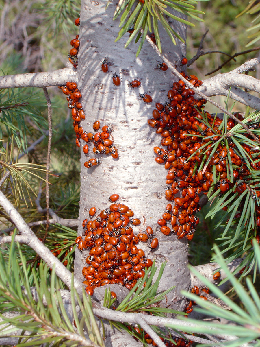 Ladybugs' mating ritual. Tristan Denyer, Colorado Springs, Colorado.